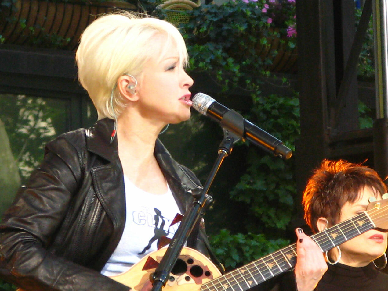 Summer Concert Series